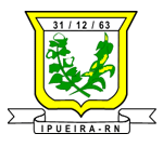 Ipueira's signal